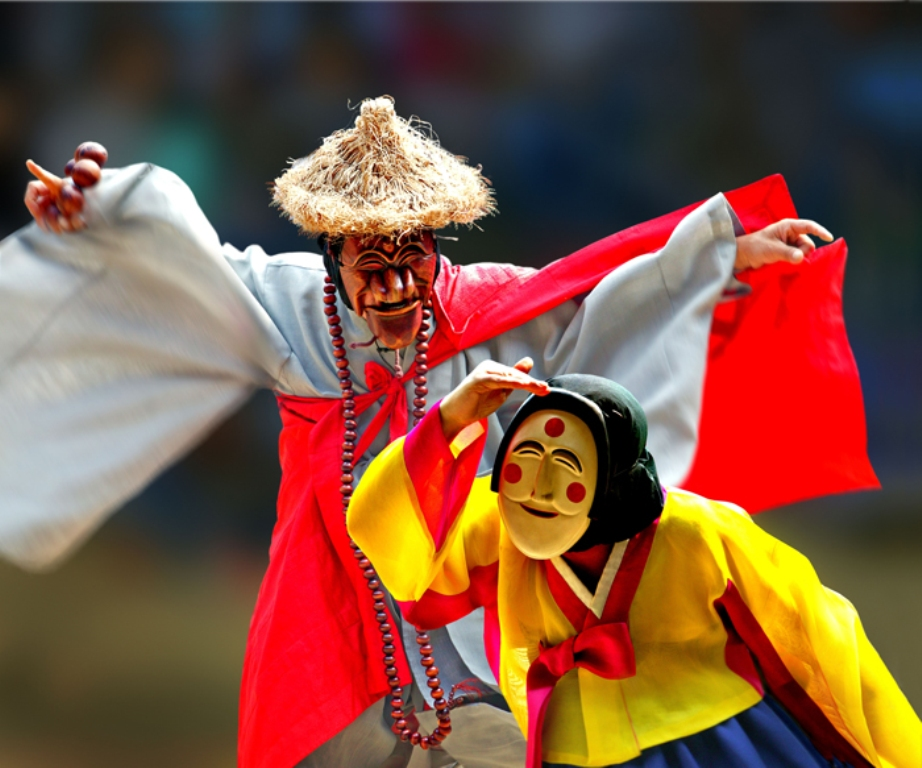 The 13th Andong International Mask Dance Festival will be held from September 24 to October 3, bringing together mask dancers and entertainers from all over Korea and around the world.